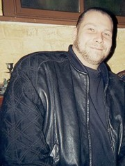 German gore director Andreas Schnaas (left) and the late Lucio Fulci (right) at the 1994 Eurofest, London, England.